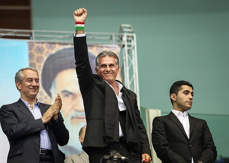 Iran national football team offs to Brazil for World Cup